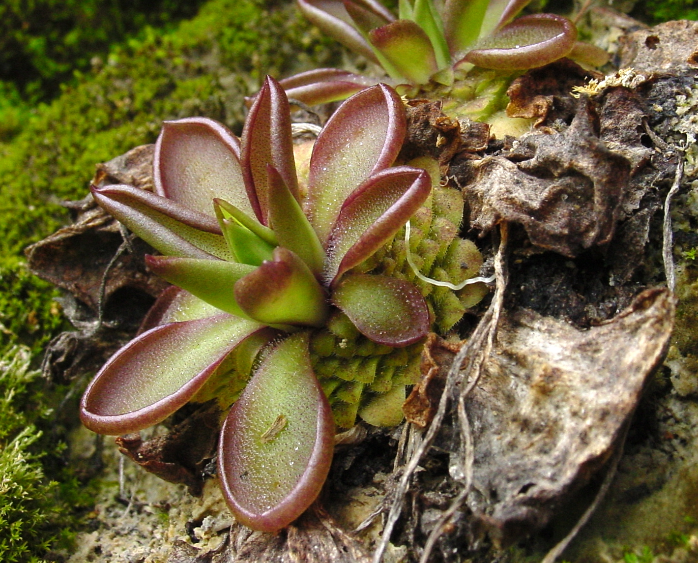 Pinguicula moranensis, summer rosette emerging from winter (resting) rosette. In situ in Oaxaca, Mexico.